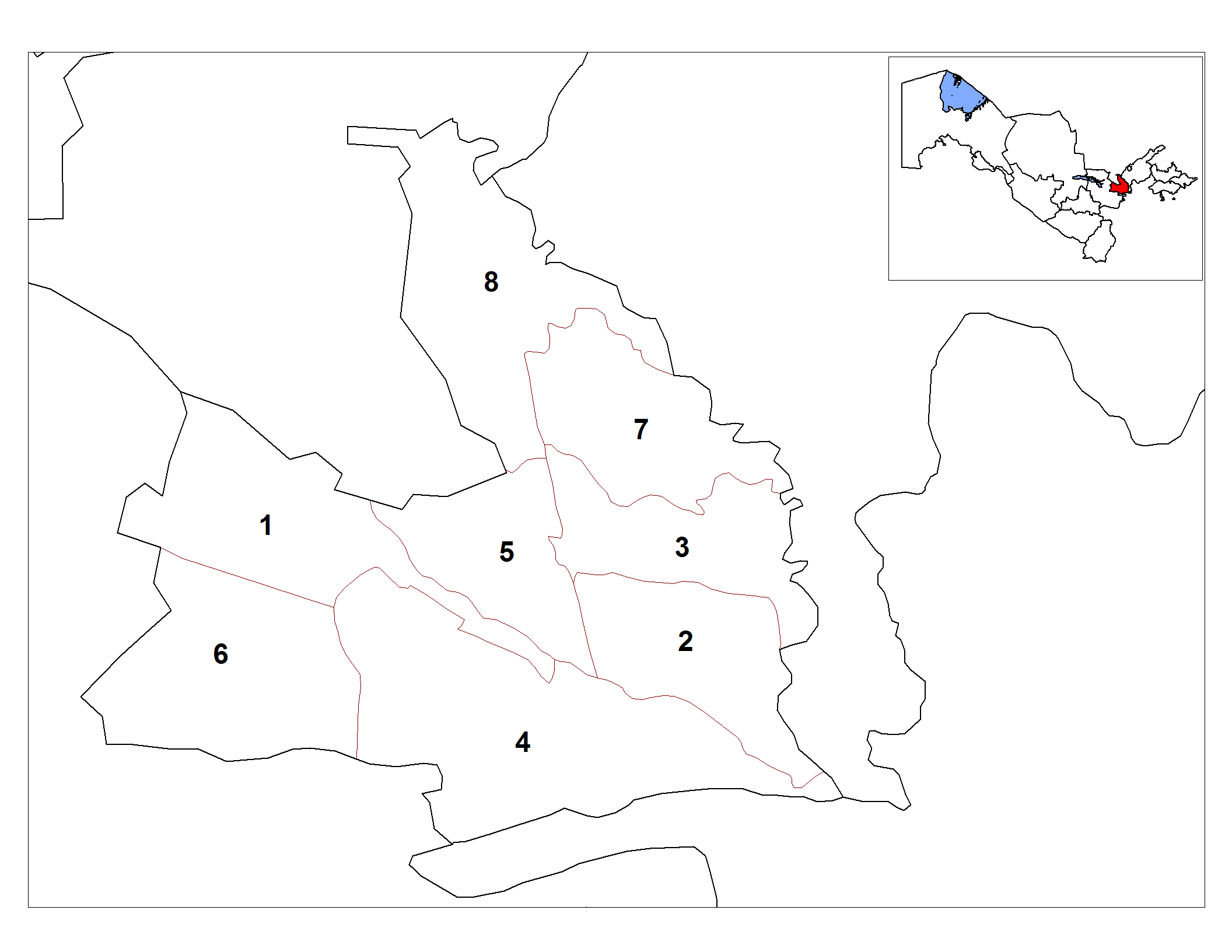 Map of the districts (tuman) of the province (viloyat) of Sirdaryo in Uzbekistan.